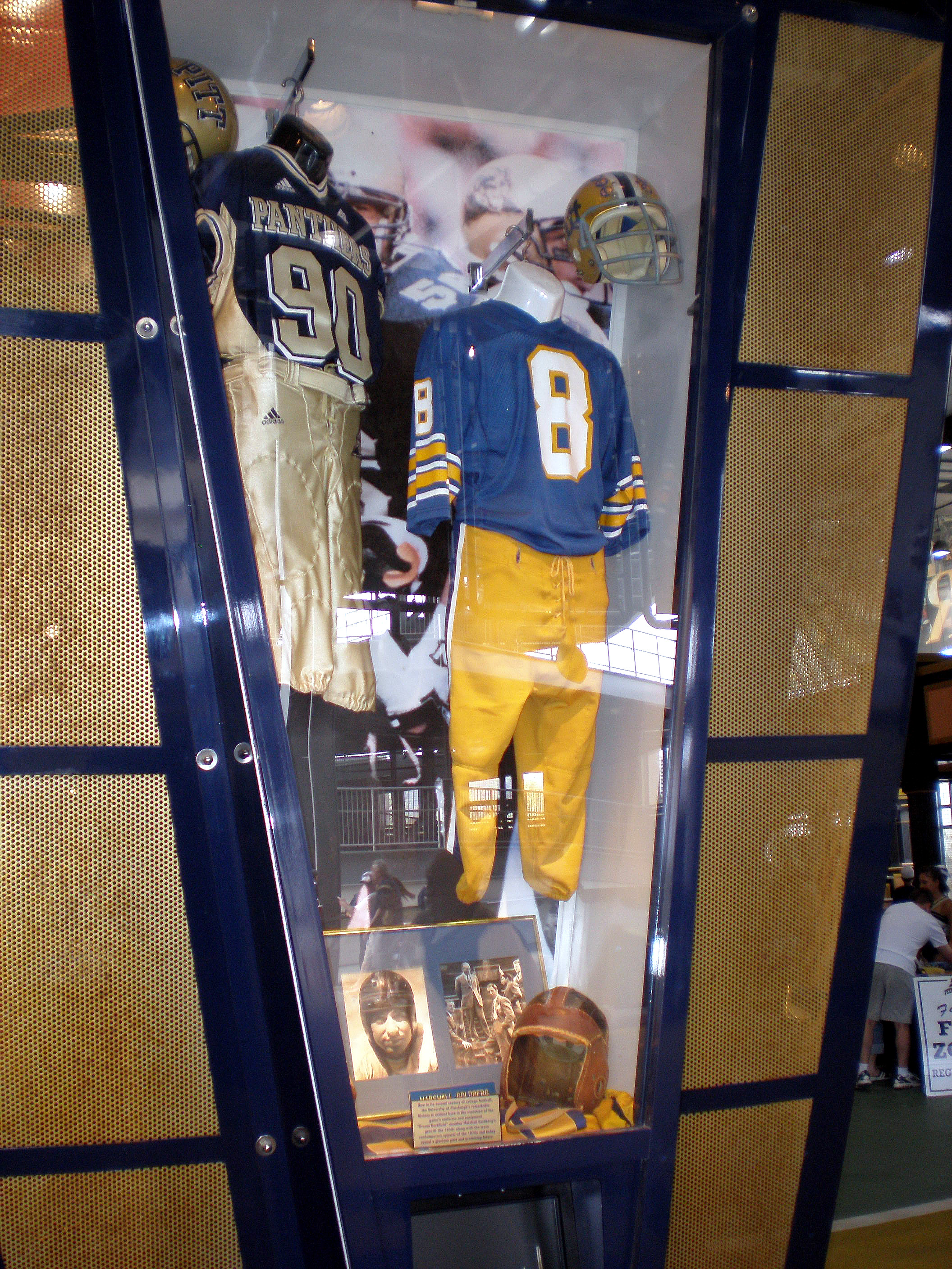 A kiosk in the Great Hall of Heinz Field celebrating former greats of the Pitt Panthers.